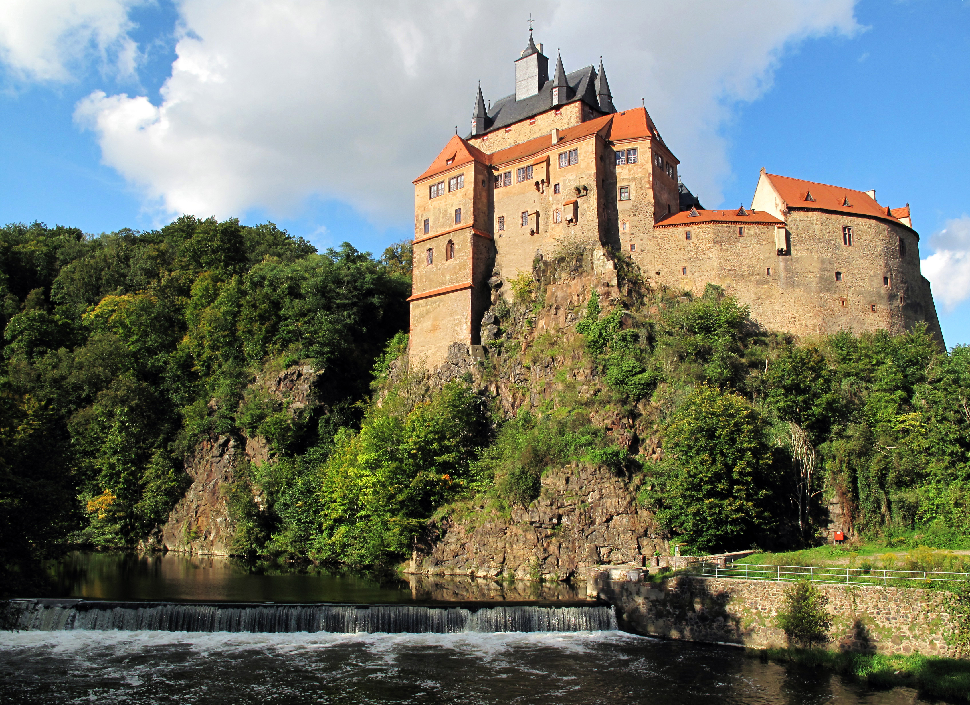 Castle Kriebstein